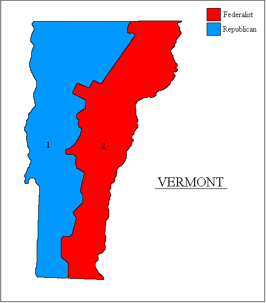 Congressional district map of Vermont for the 5th Congress, 1796